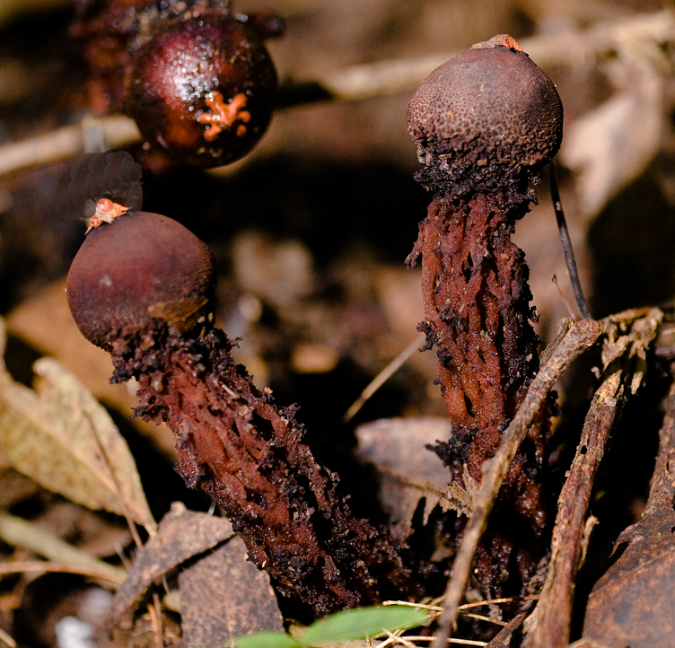 Specimens from the fungal genus Calostoma, tentatively identified as Calostoma rodwayi. Photographed in Swans Crossing State Forest, New South Wales, Australia. "Notes: Several specimens found on forest floor. All had some wet weather damage. I hesitated in using this (rodwayi) name because of the long fruiting bodies that are not shown in my reference. My reference only shows the specimens at ground level."